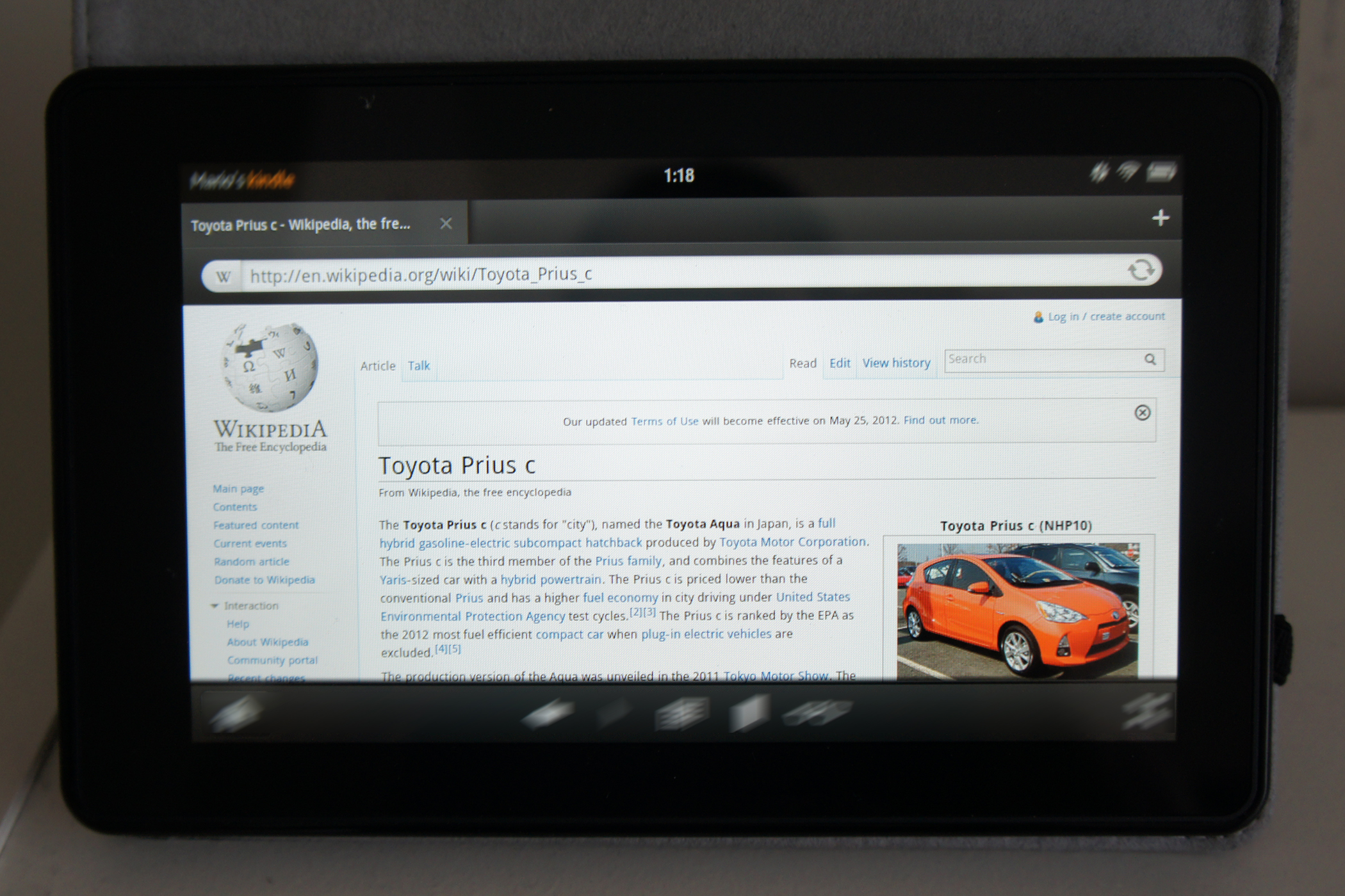 Amazon Kindle Fire displaying the English Wikipedia main page. The Wikipedia screenshot is licensed under GPL and any other material that might be copyrighted (icons, logos, etc) has been blurred to avoid any copyrights infringement